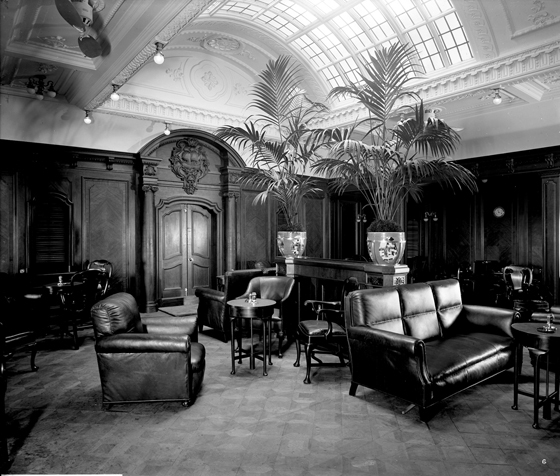 First class smoking room on the 'Orama', glass plate negative, by the firm Bedford Lemere